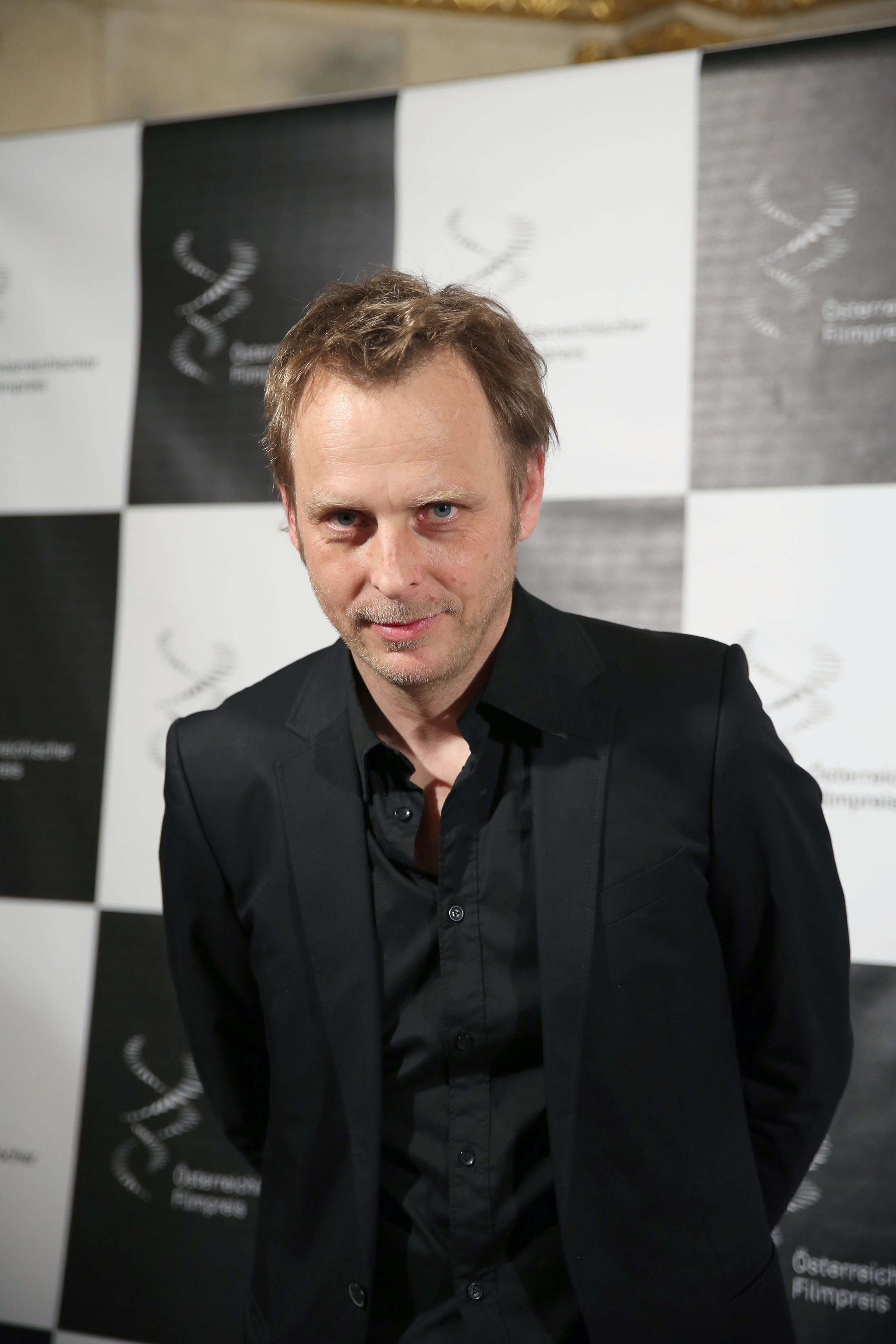 Florian Flicker, Austrian Film Awards 2013 (Vienna).